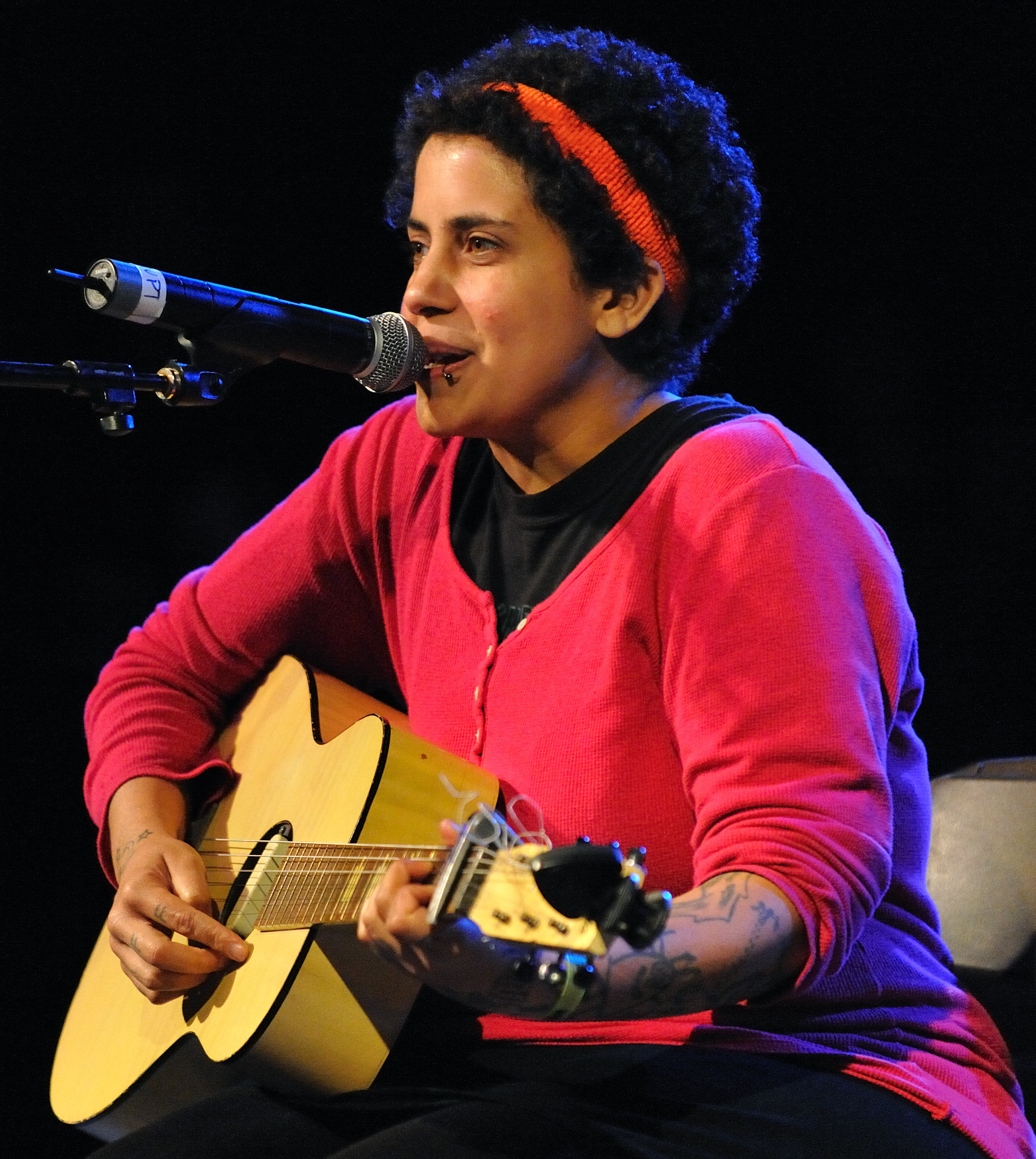 Kimya Dawson playing a solo set at Harvest of Hope Festival in St. Augustine, FL.